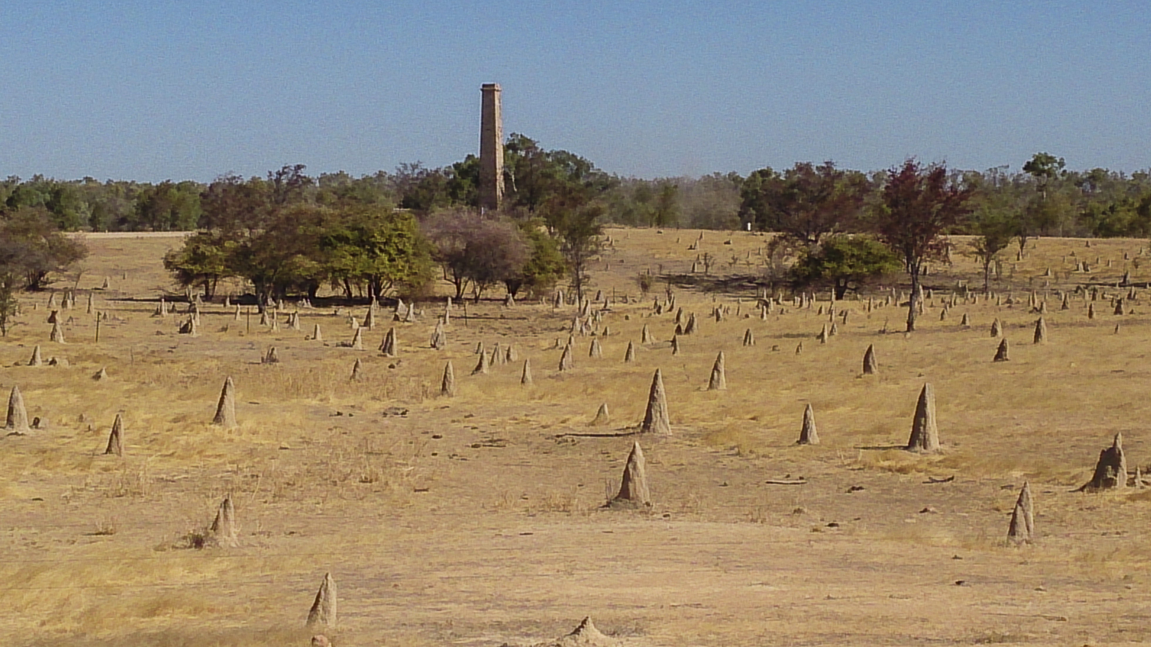 View from Savannah Way